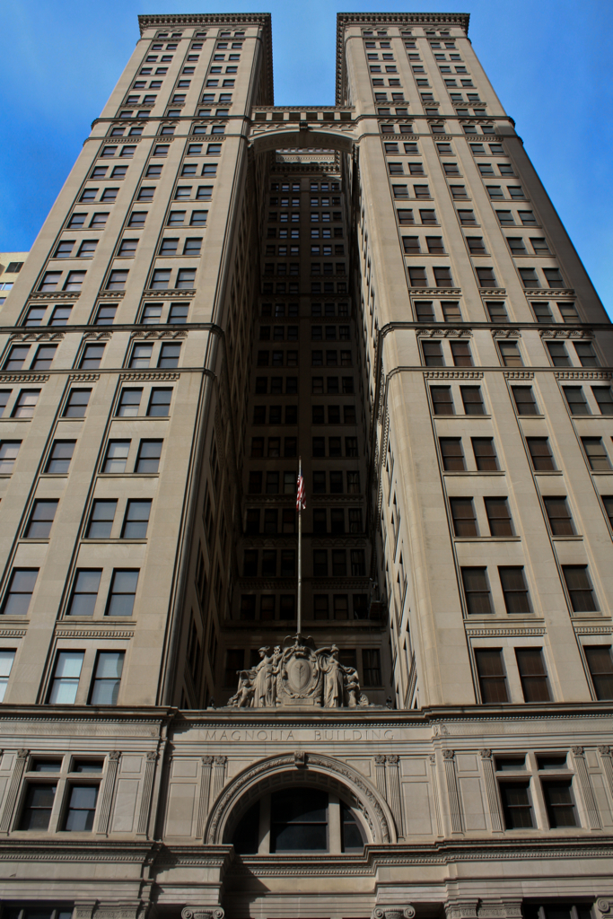 Exterior view of the Magnolia Building in downtown Dallas, now the Magnolia Hotel.